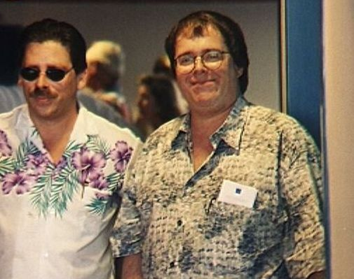 Tom Leykis (right)) at the Stratosphere Hotel Casino in 1998